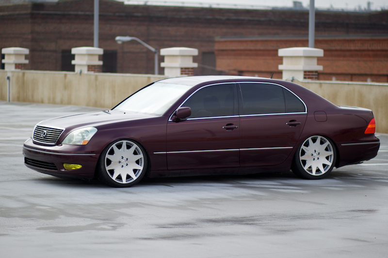 Andrew's Lexus 430 ES.